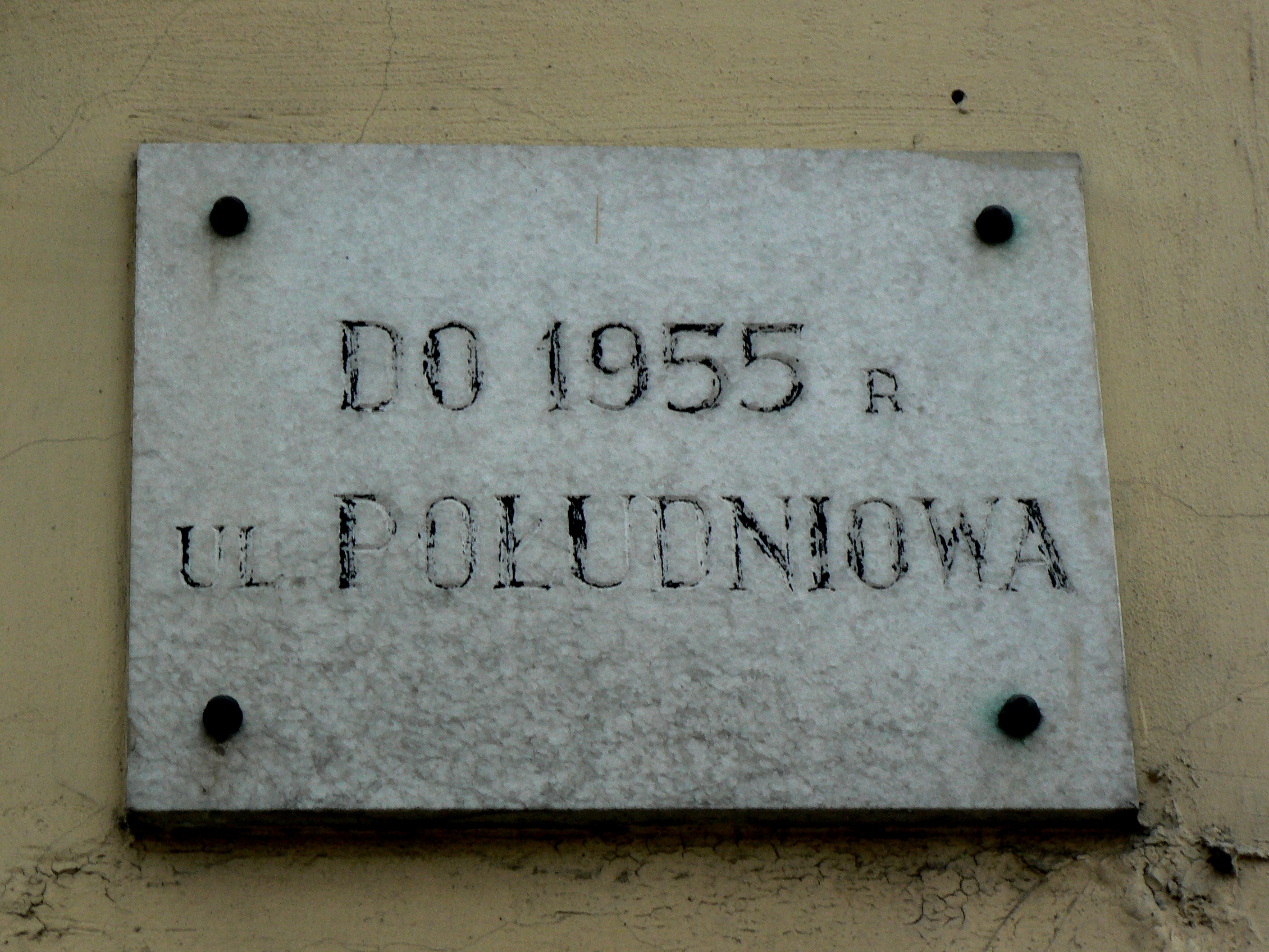 Slab on the wall of the corner-building, at the junction of the Revolution of 1905 and Piotrkowska street.